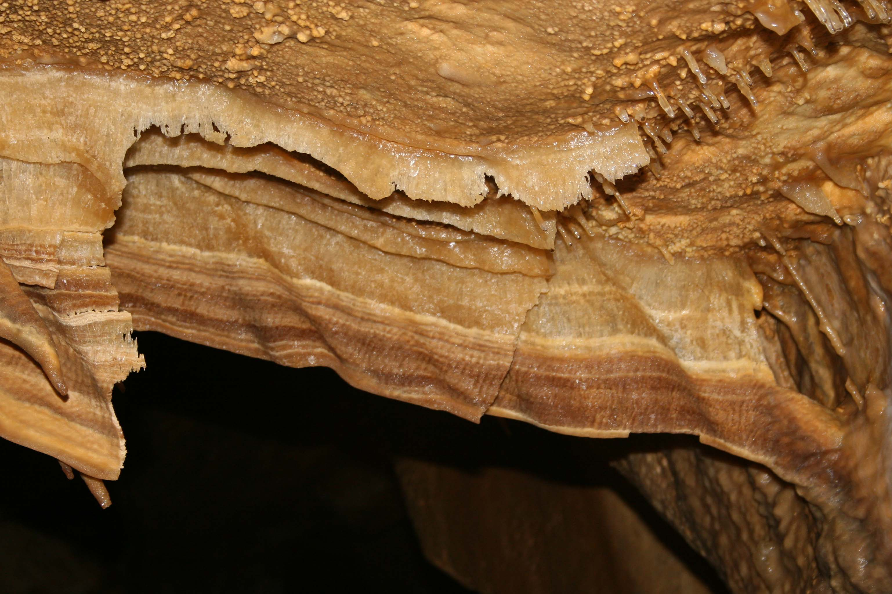 Pic taken by DanielCD on July 31, 2006 at the Caverns of Sonora near Sonora, Texas. Date on the camera is wrong. This is cave bacon, a type of flowstone. Picture is tilted about 30 deg. from actual. Tried to rotate it, but the crop thus forced lost too much of the image. From base to the rim is approx. six inches.